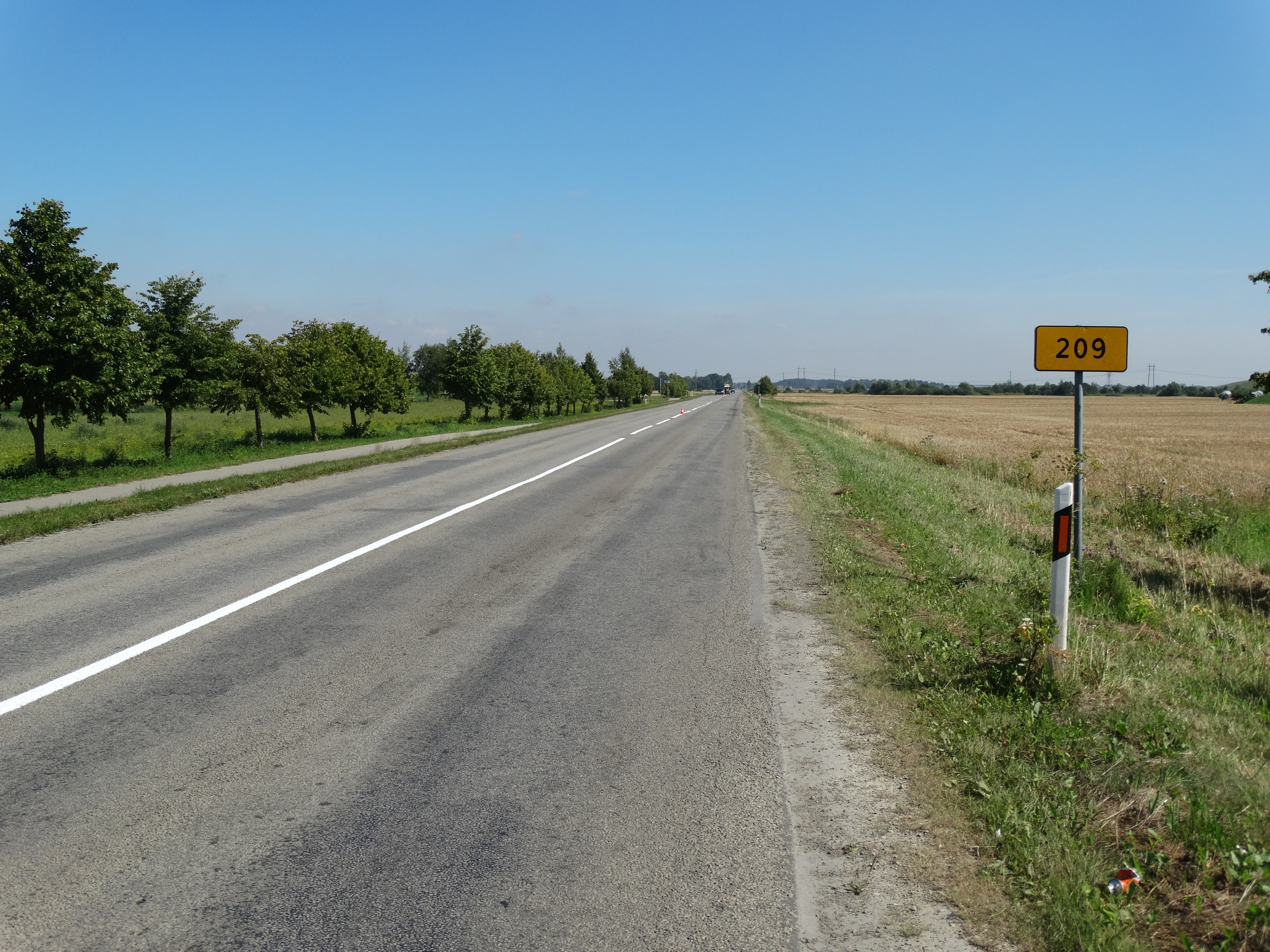 Regional road 209 by Joniškis, Lithuania